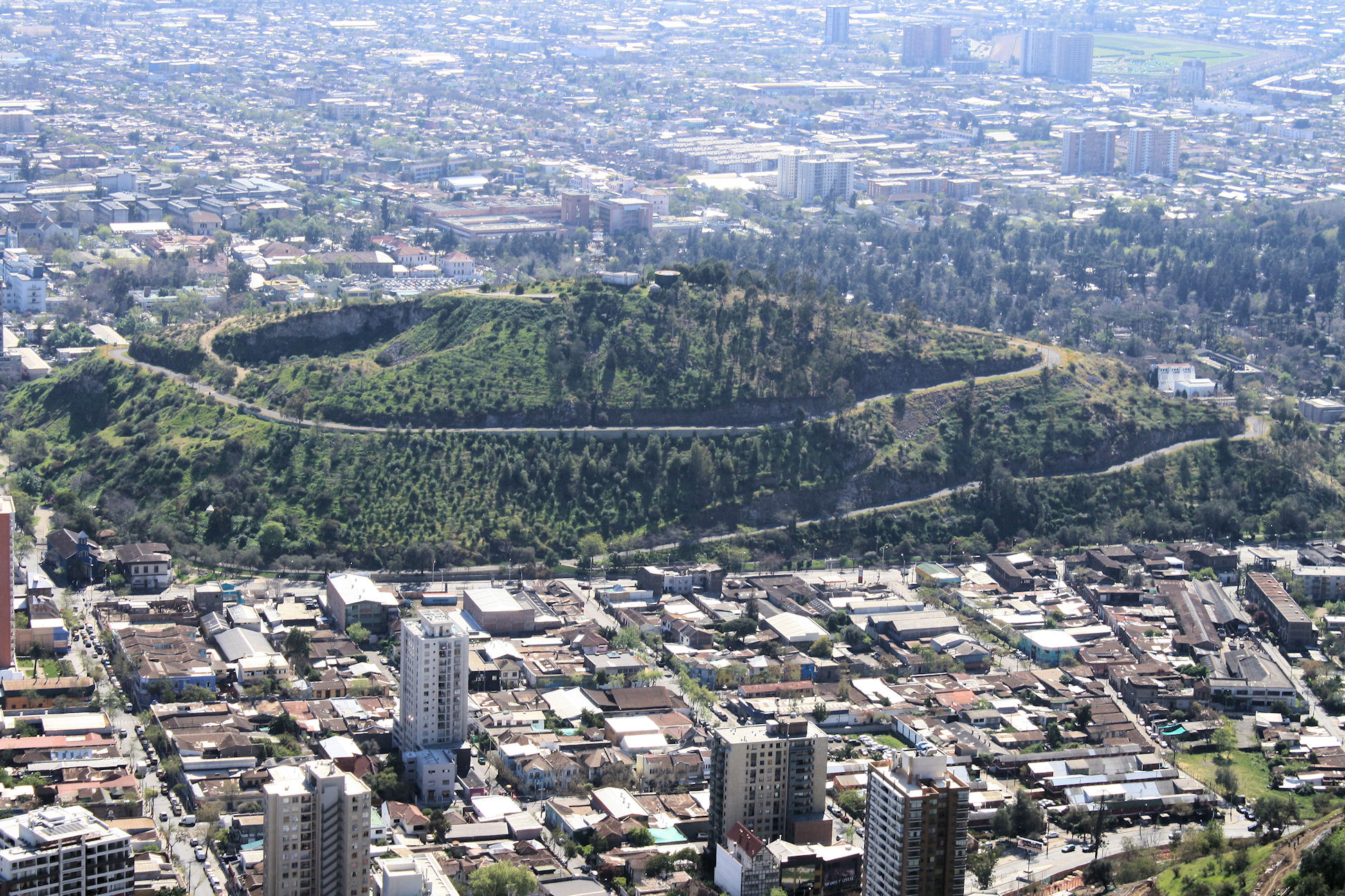 Crro Blanco is a hill in the Recoleta district in the city. The indigenous people used it as a meeting place. They called it Huechuraba after a chief that lived there. It's present name probably derives from the white stones that were found there in the 18th century and were used for the construction of some of the buildings in the city. Read more about the hill (in Spanish) here.